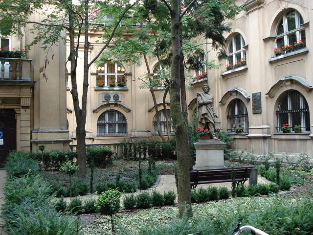 Courtyard of the building of the Poznań Society of the Friends of Sciences (PTPN) in Poznań